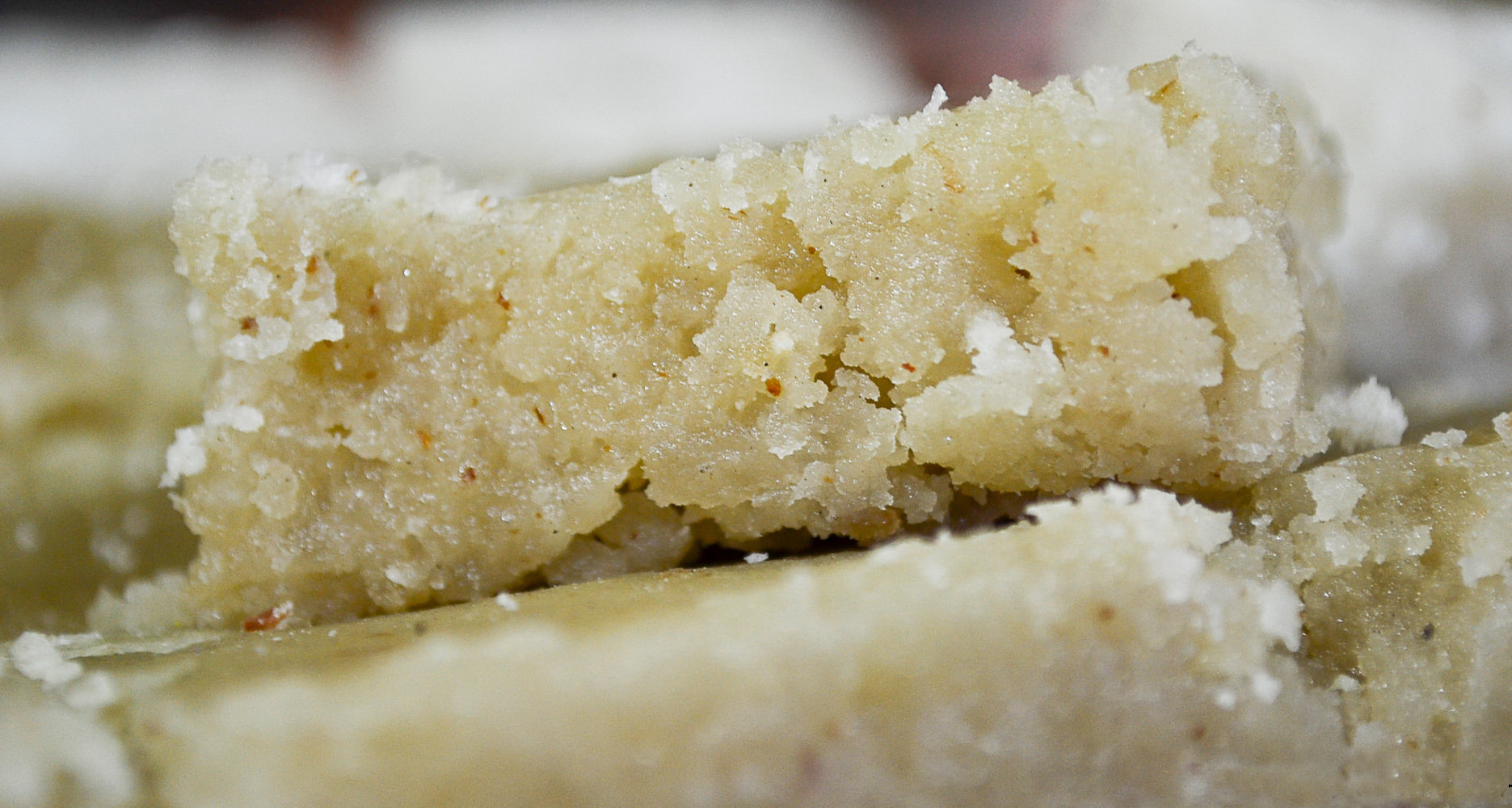 Sweet tooth - Coconut Barfi shot at Food Street, Bangalore